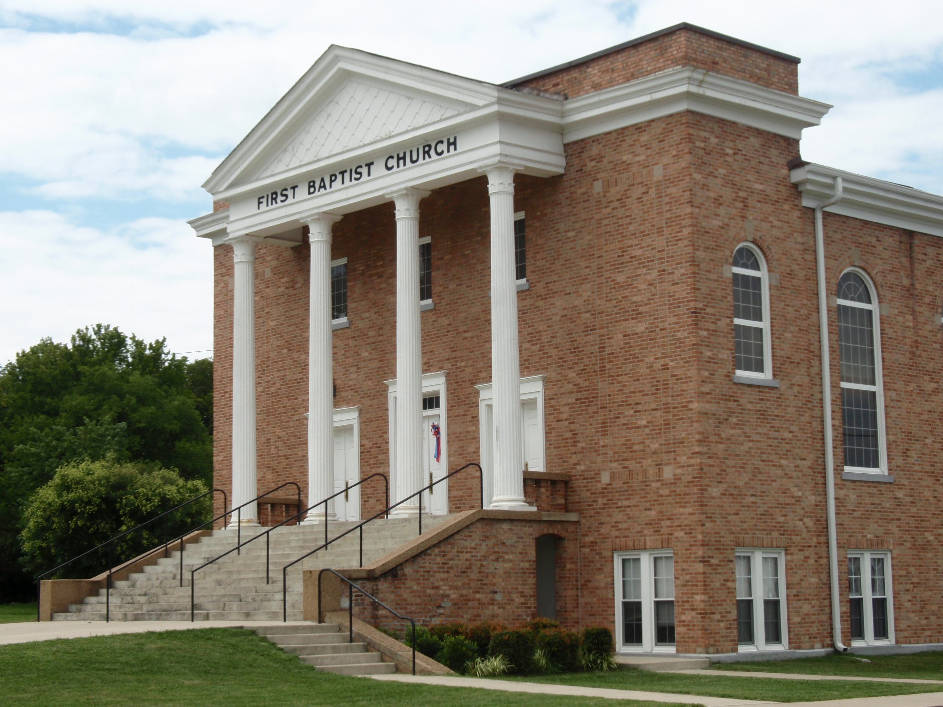 First Baptist Church in Watertown, Tennessee, United States